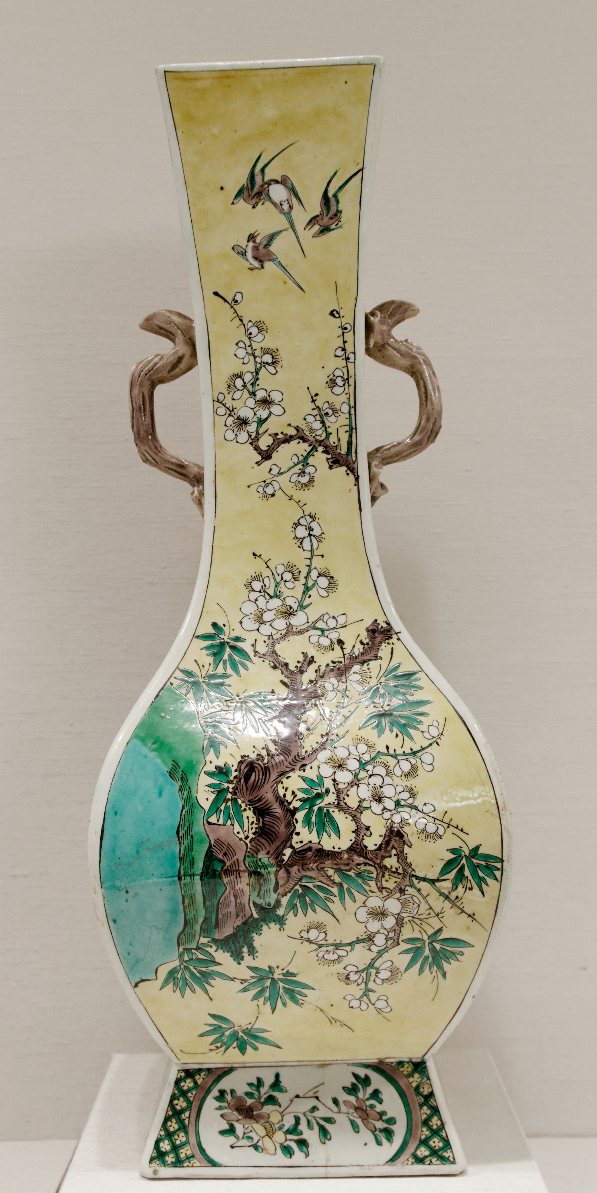 Vase of the Qing dynasty (1644–1911). Porcelain with famille jaune enamels.